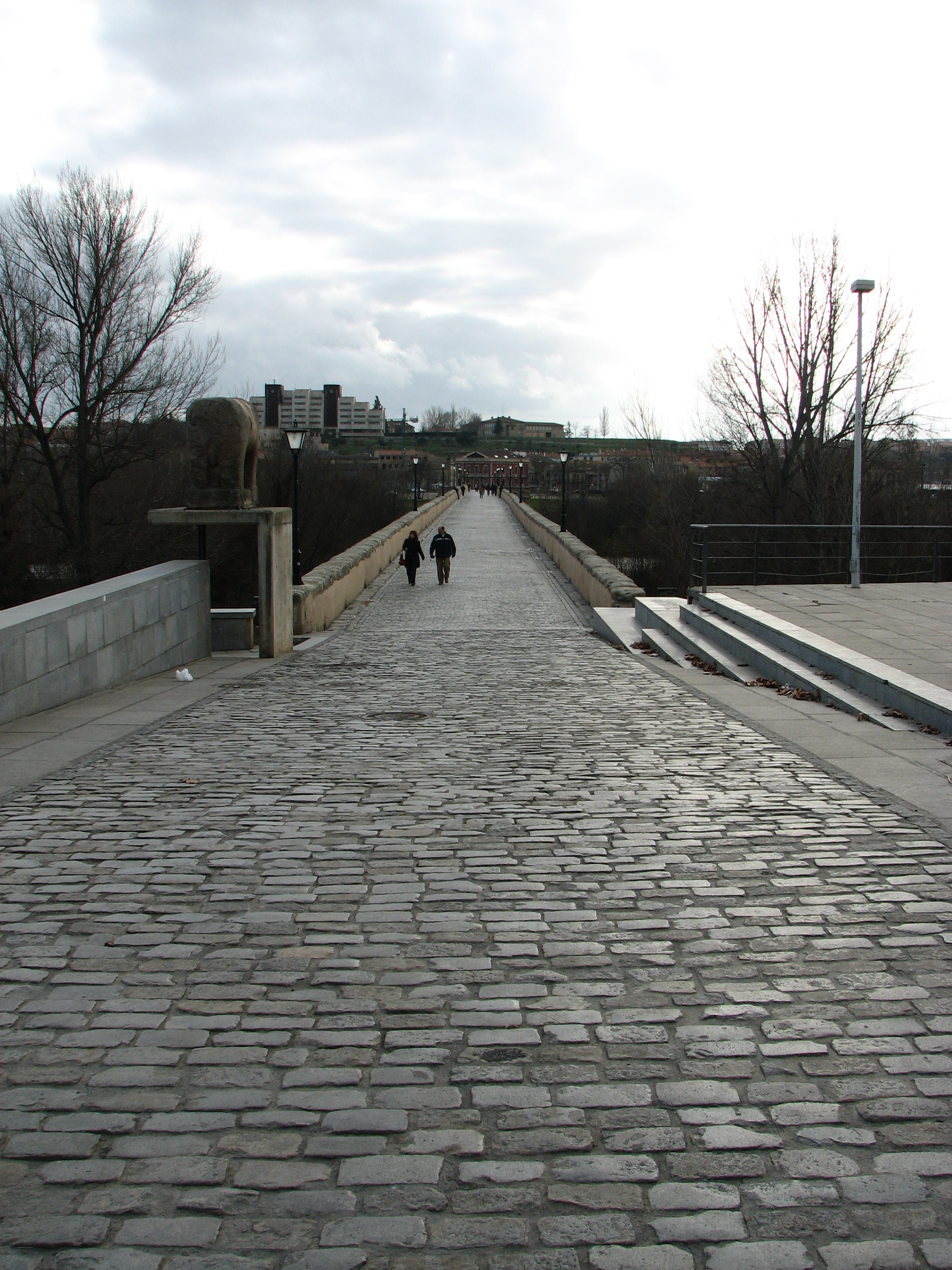 Roman Bridge - Salamanca Author - Bandwagonman 05:07, 12 April 2007 (UTC)